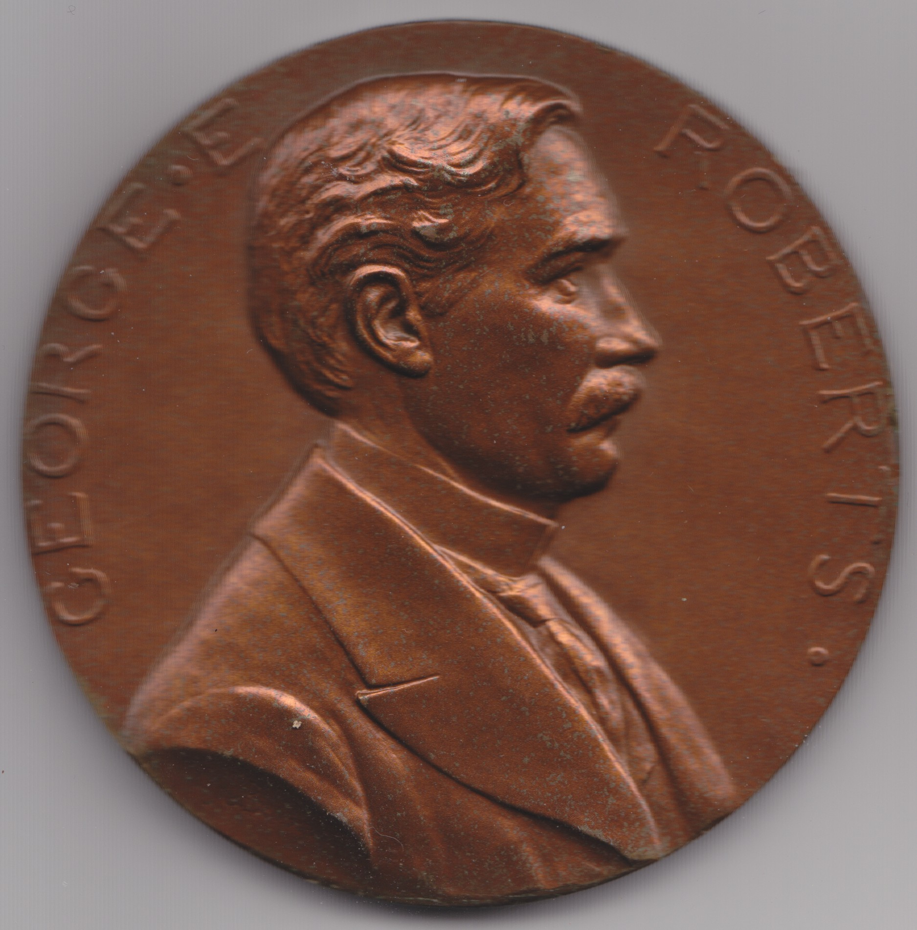 Mint medal honoring the service of Director of the Mint George E. Roberts (1898-1907, 1910-1914). It was designed by Mint Engraver Barber.